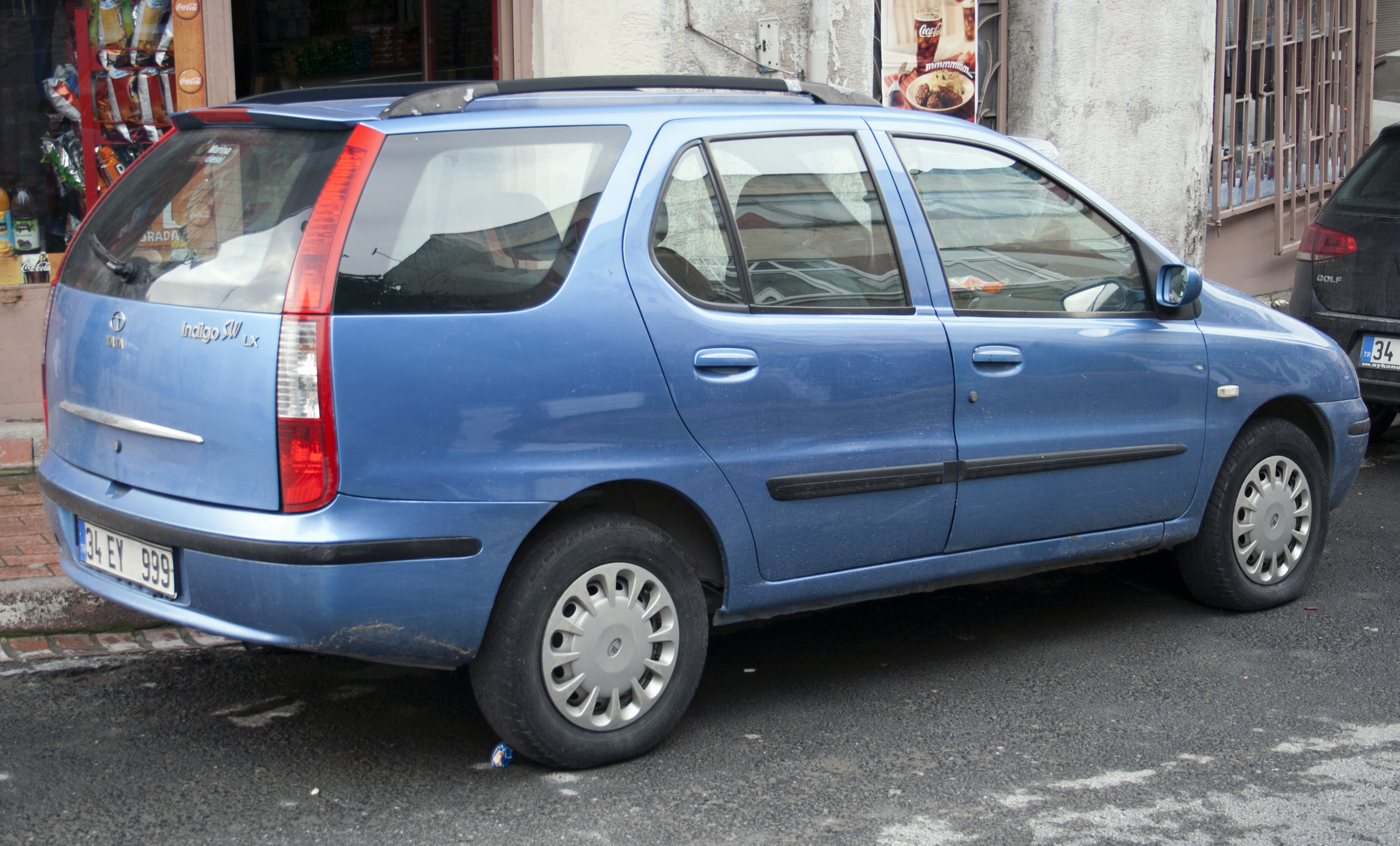 Tata Indigo SW LX in Istanbul.